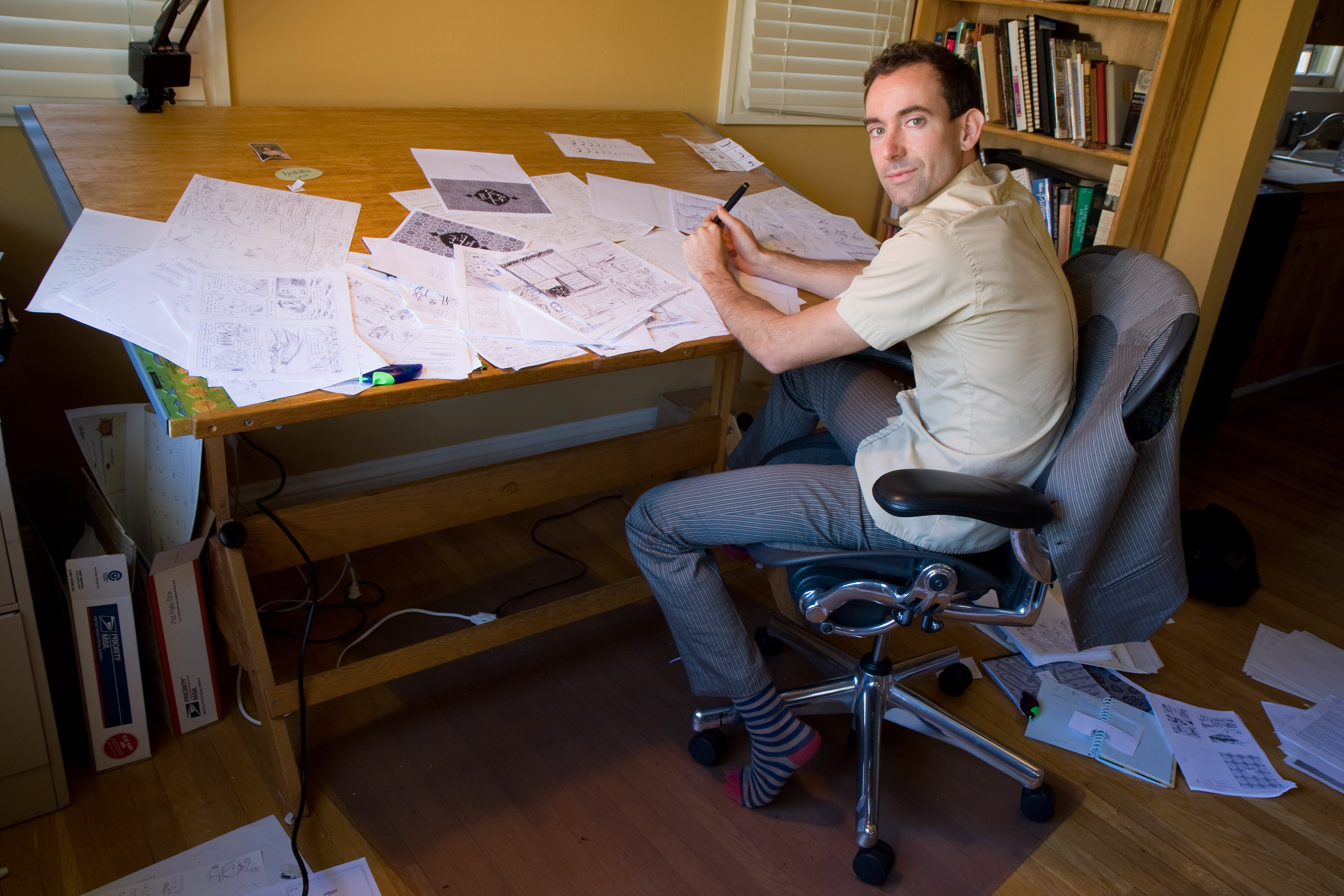 Graphic novelist Craig Thompson at home in front of his drawing table.